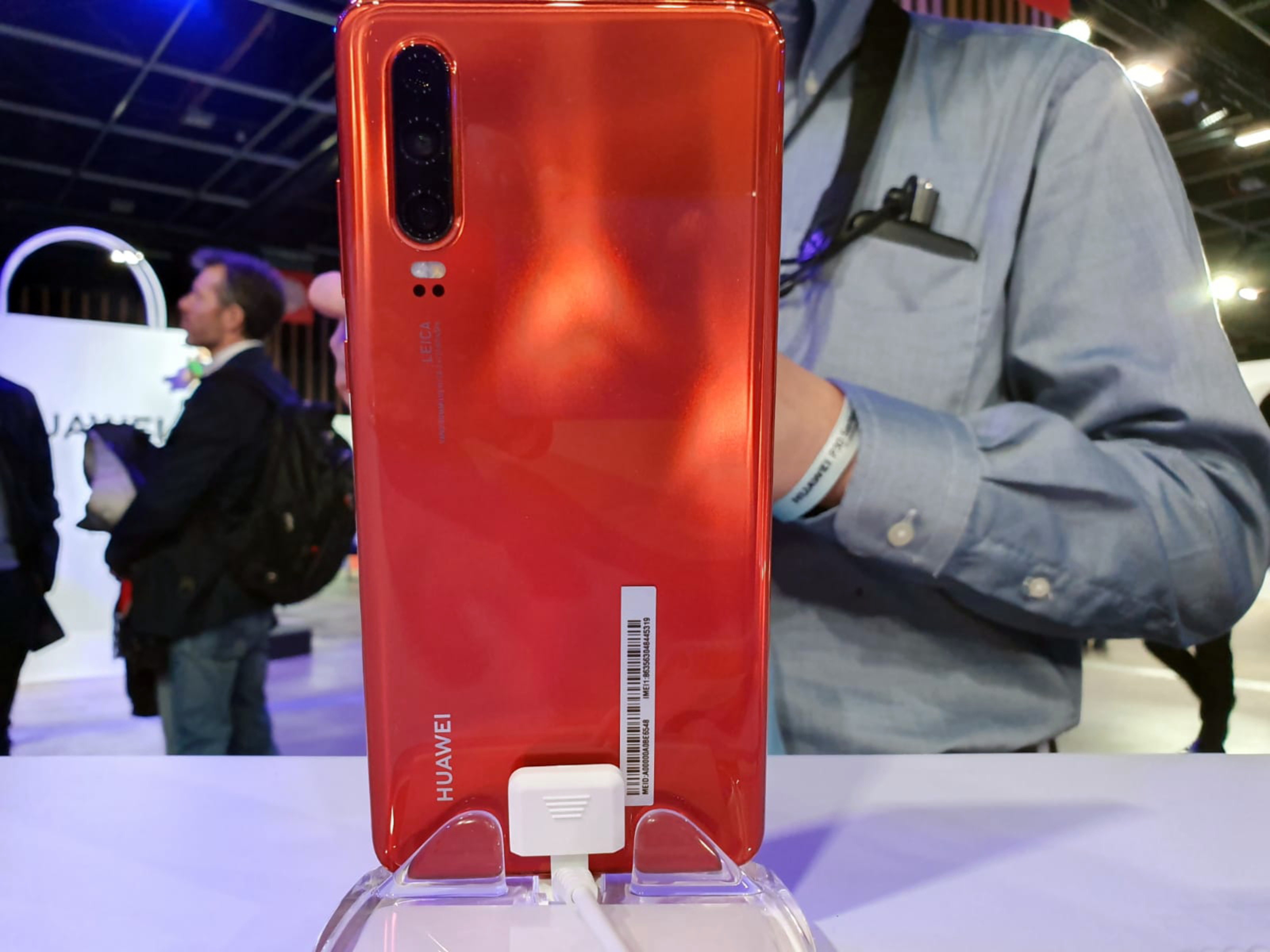 Huawei P30 at the launch event in Paris